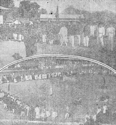 Soft tennis at the 1921 Korea National Sports Festival